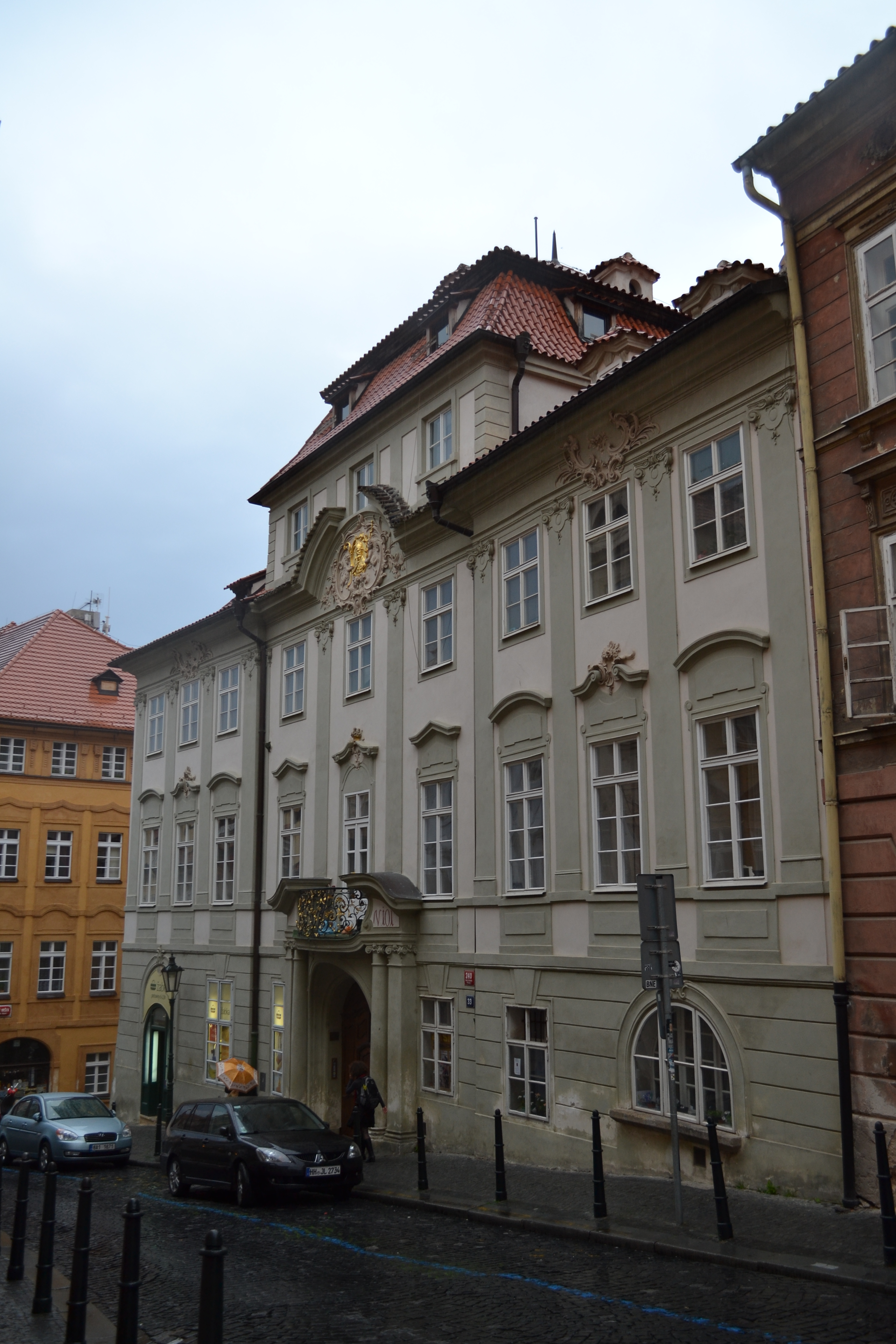 Bretfeldovský palace (aka měšťanský dům U léta a zimy), Nerudova 33/240, Prague, Czech Republic